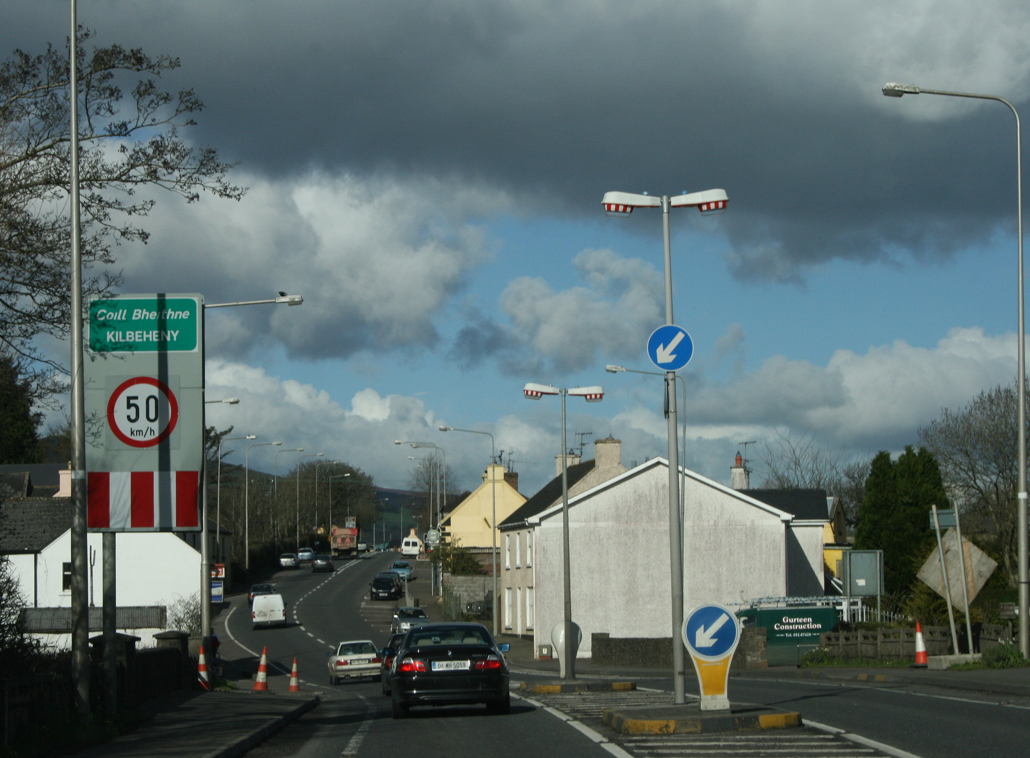 The R639 (former N8) through Kilbeheny, County Limerick, Ireland.